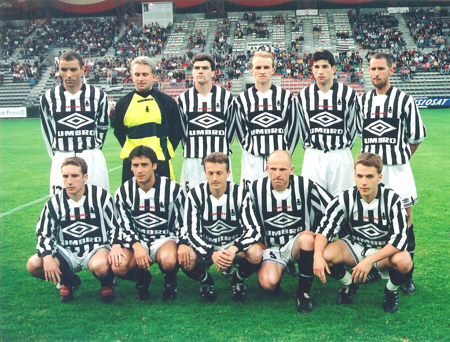 Own work, 21 May 1998 - Author : Fanch Gaume, Bretagne Football Association